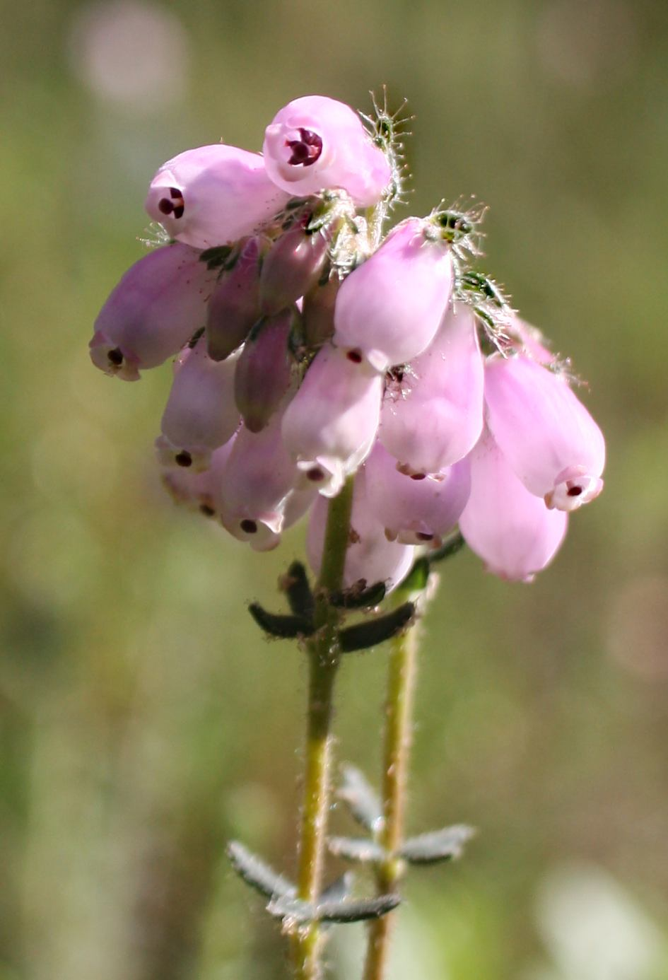 Erica tetralix, ,Słowiński Park Narodowy,wood between seashore (Baltic sea) and lake Jezioro Sarbsko